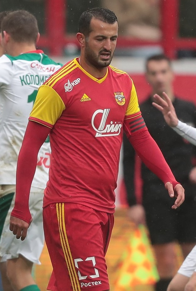 Gia Grigalava with FC Arsenal Tula in a game against FC Lokomotiv Moscow.